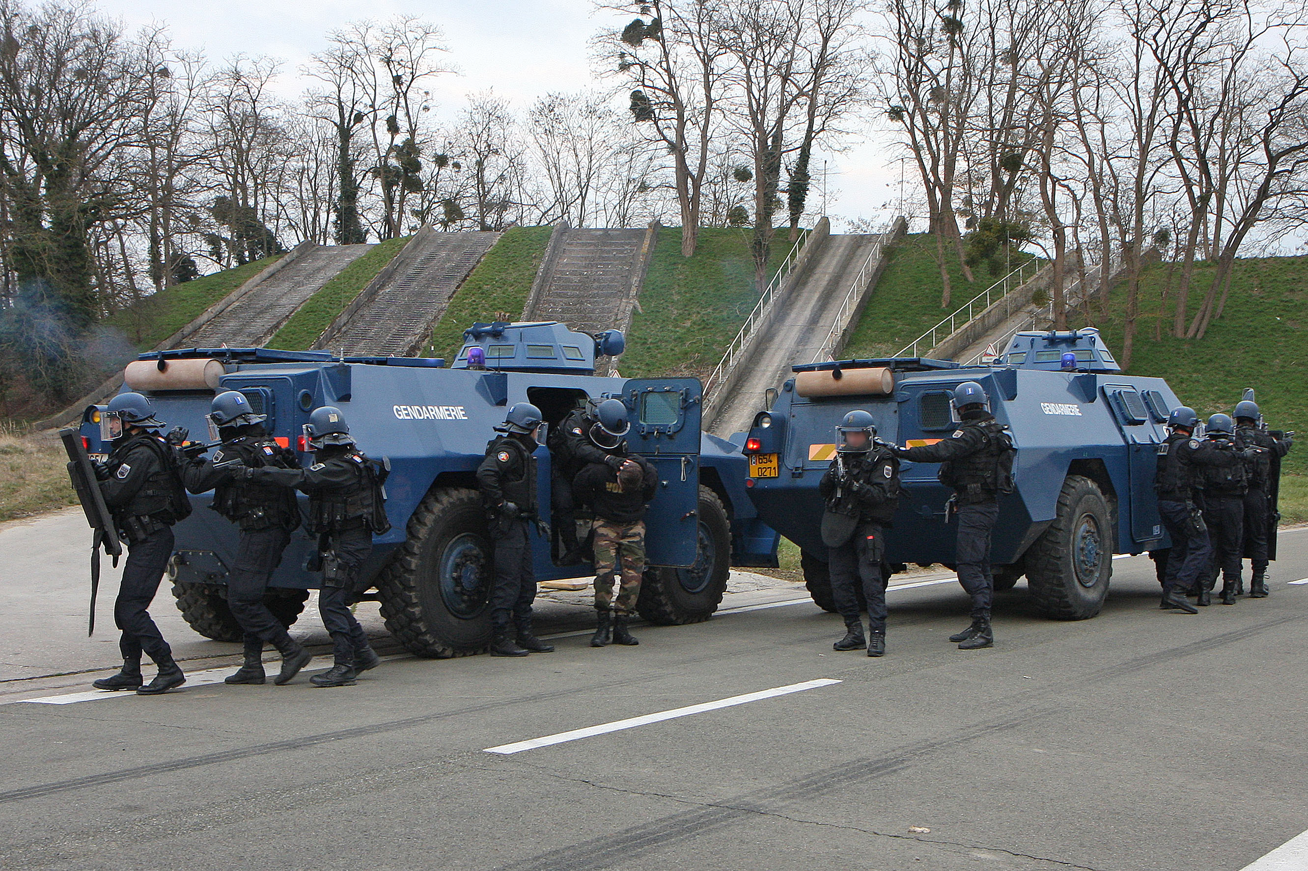 Frenche Mobile Gendarmerie "Intervention" platoon practicing rioter arrest.